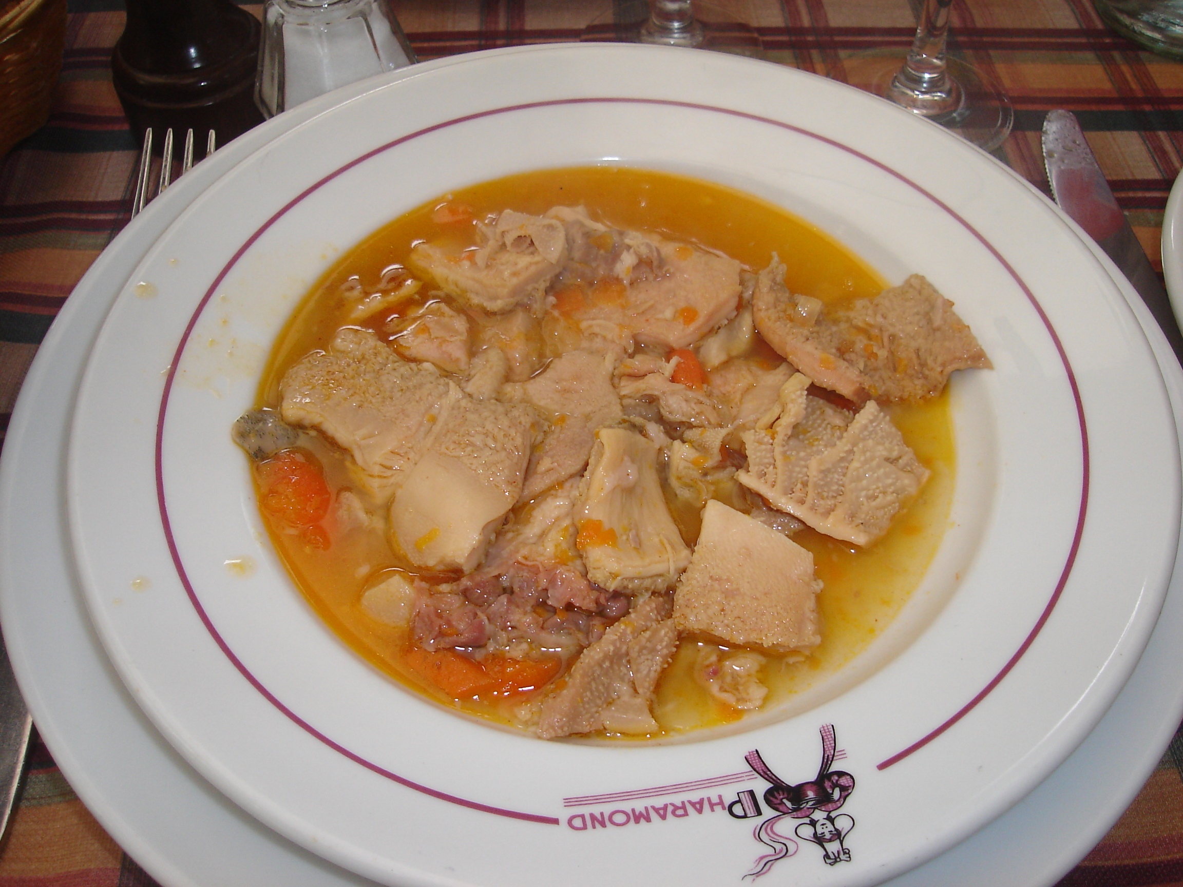 Tripe done Caen style. Whatever that means. :) I had to order it as I like tripe and had to see what the French could do with it. Caen style turned out to be a tomatoey soup which suited the tripe very well. Big ups to the folks of Caen.